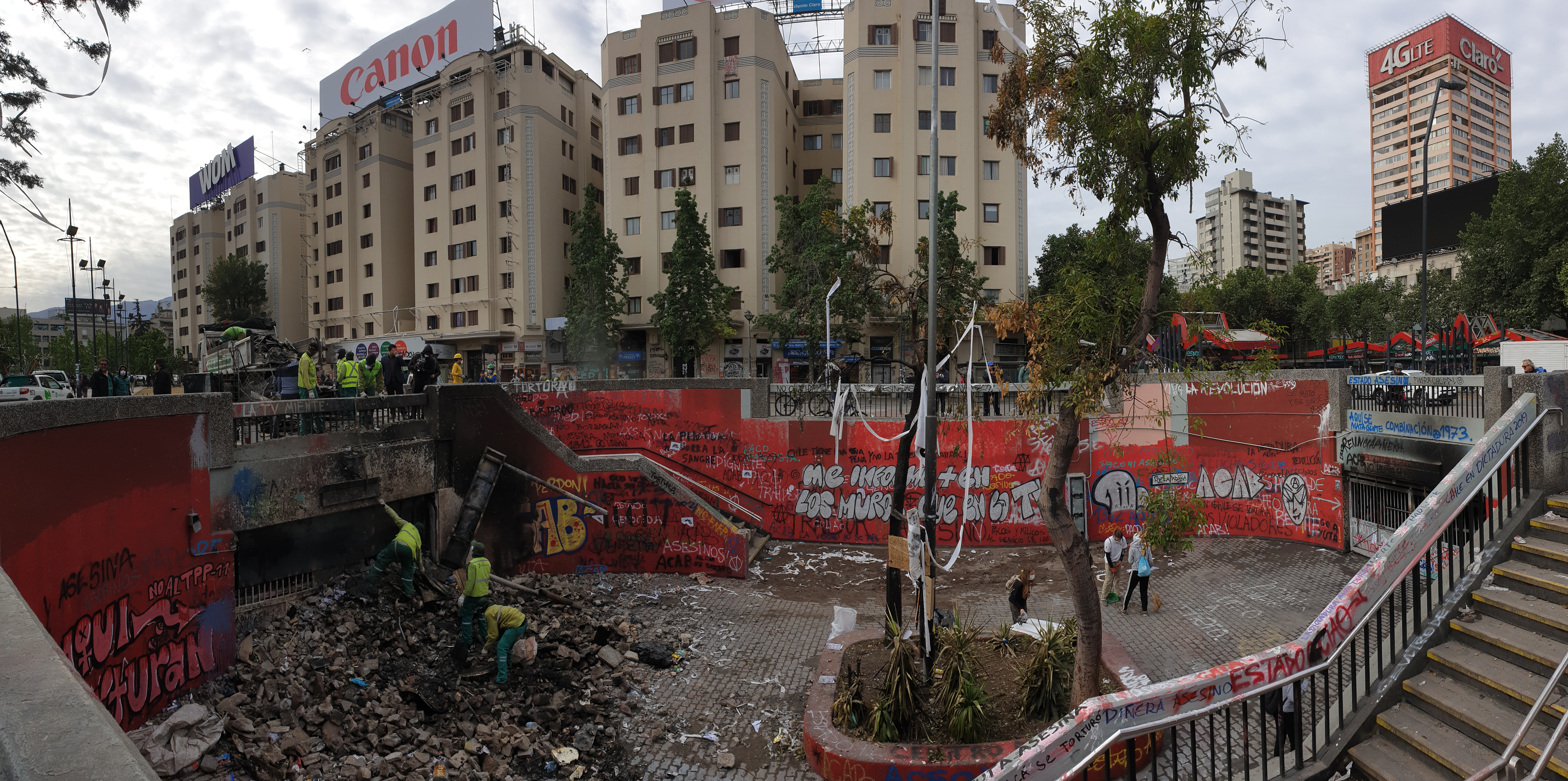 Baquedano Metro Station burned after the riots in Santiago (28-10-2019)